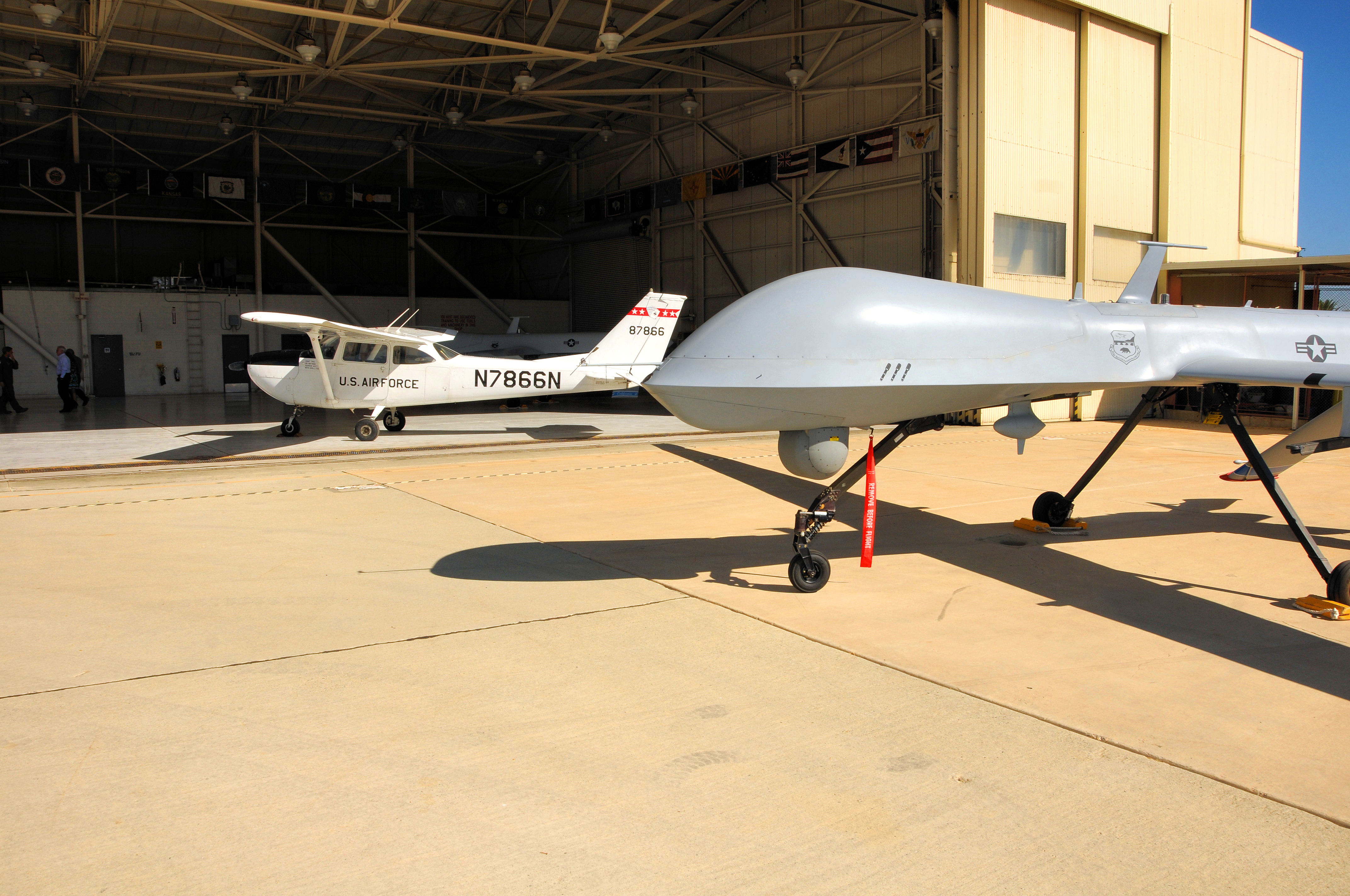 Team March has found a way to save the Air Force nearly $100,000 dollars a year, by using its own Aero Club planes to fly chase plane missions for the MQ-1 Predator out of Southern California Logistics Airport in Victorville, Calif.